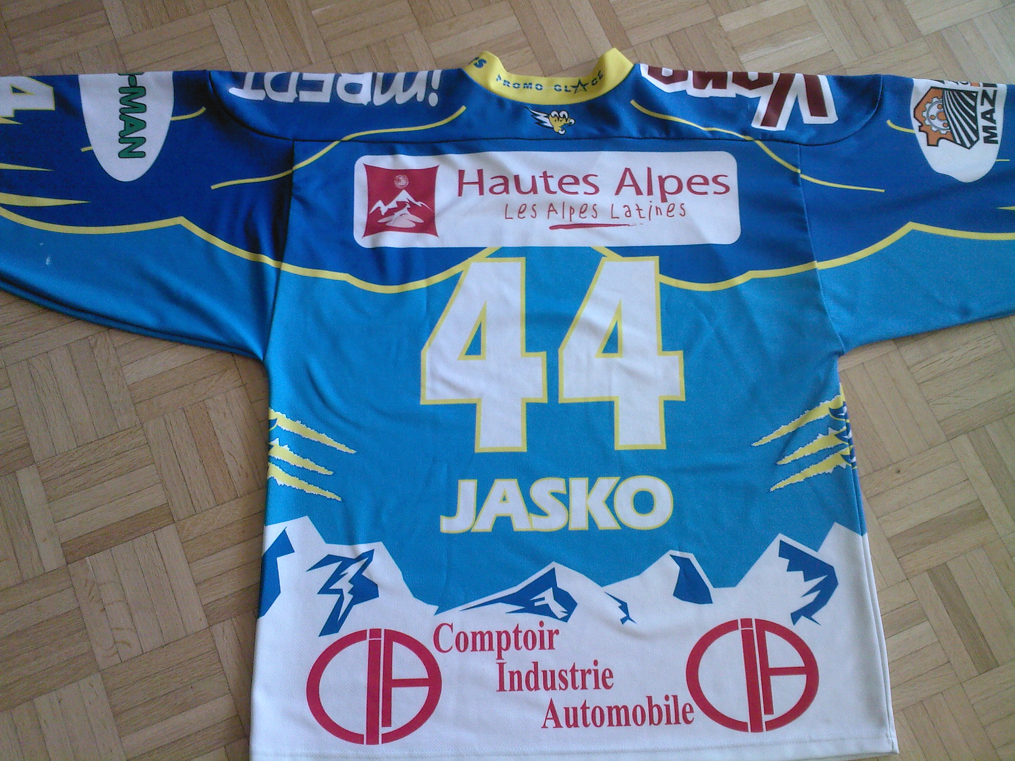 Jersey of Roman Jasko, slovakian ice hockey player, during his season in Gap, France (2008-09).